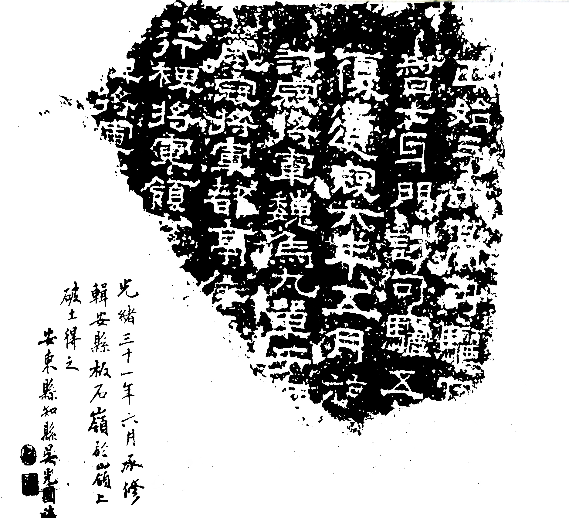 Rubbing of a fragment of the memorial tablet of Guanqiu Jian, inscribed in 245, rediscovered in 1905.